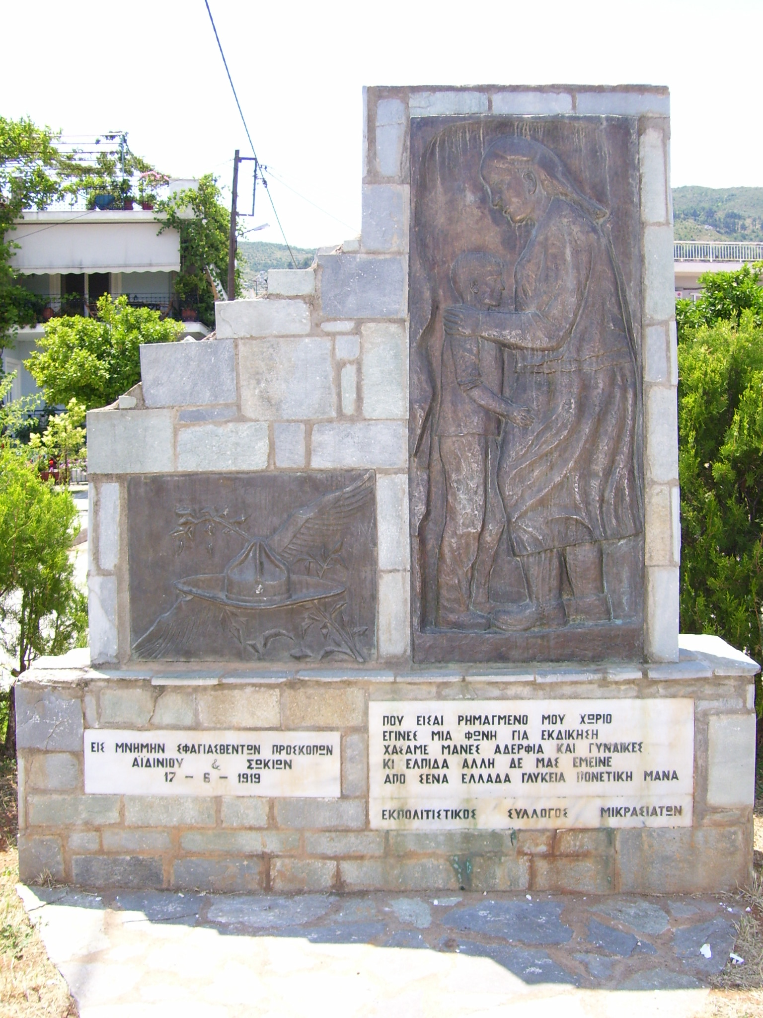 The monument in Agios Meletios, Boeotia